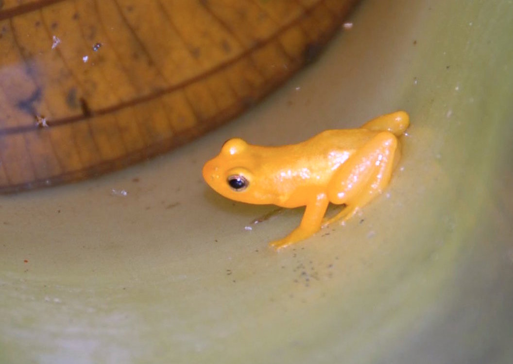 Golden Frog that lives in a bromeliad